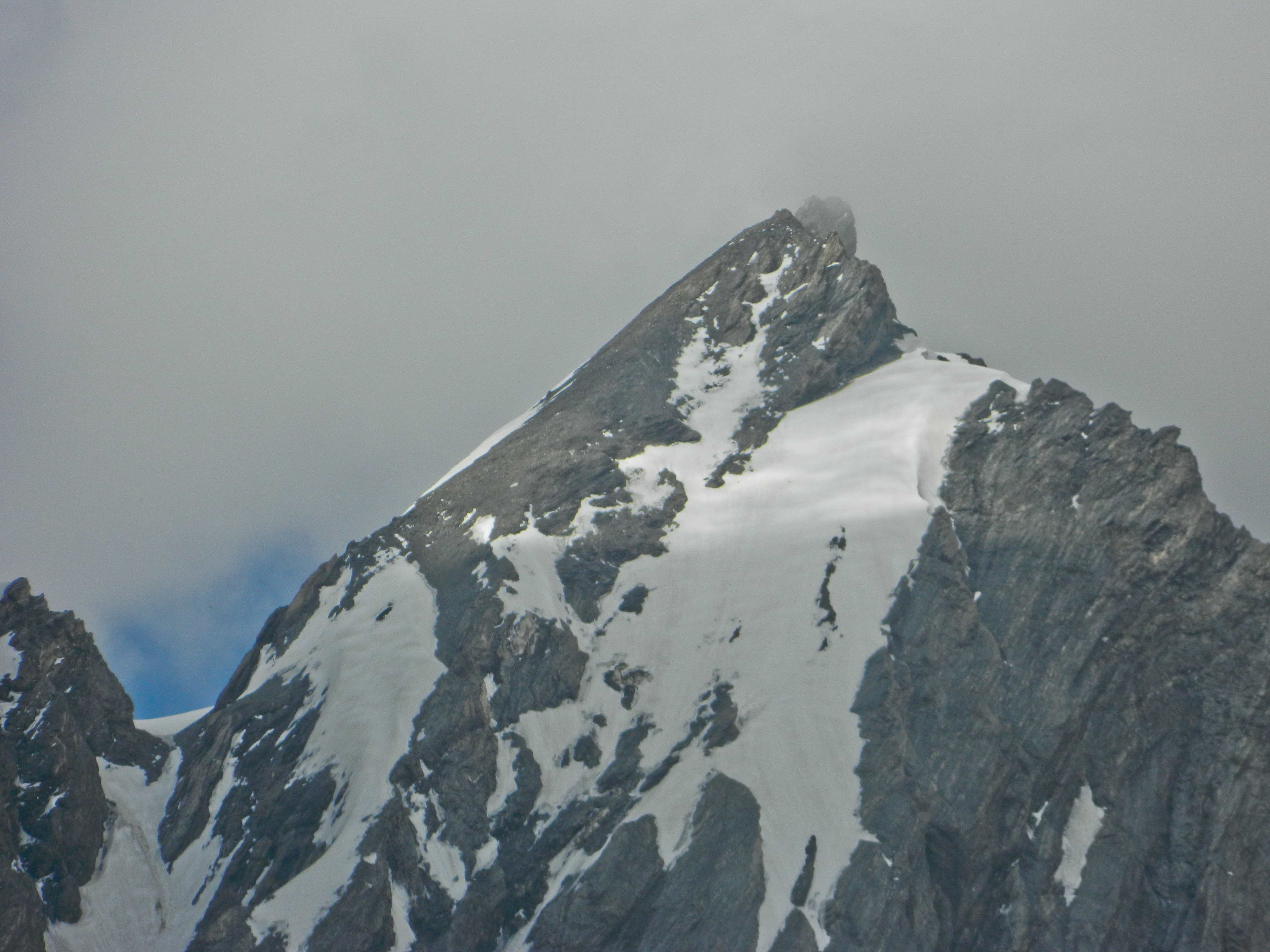 Machoi Peak, as seen on an overcast day in the state of Jammu and Kashmir, India July 5, 2013.